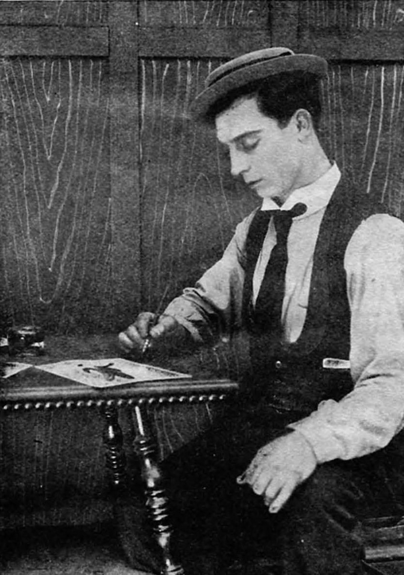 Actor Buster Keaton autographing photographs, on page 48 of the January 1921 Film Fun.